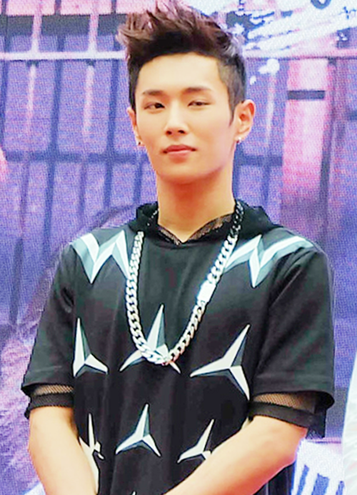 Li Wenhan in Shanghai during a fan sign event, June 21, 2015.